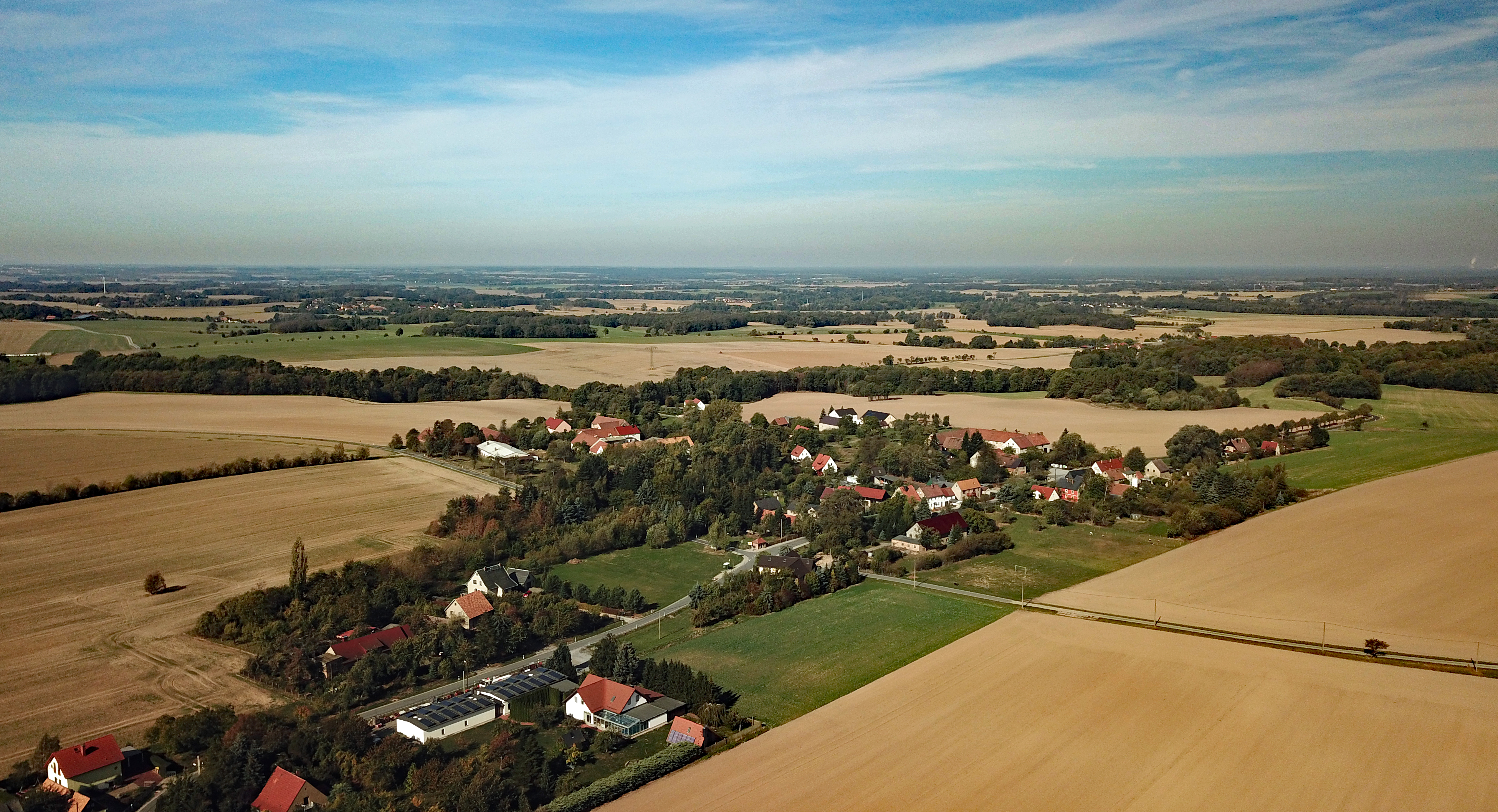 Zschorna (Hochkirch, Saxony, Germany) Hornjoserbsce: Powětrowy wobraz Čornjowa